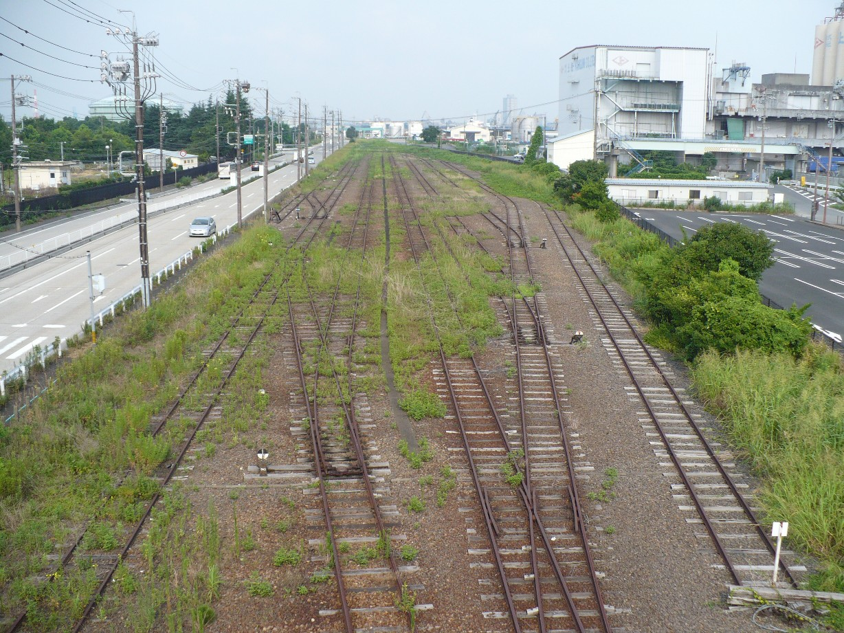 Shiomicho freight station of Nagoya Rinkai Railway, Minato, Nagoya, Aichi, Japan. The station is not in use as of the date of the photo.